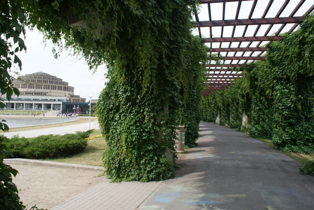 Centennial Hall and Pergola in Wroclaw